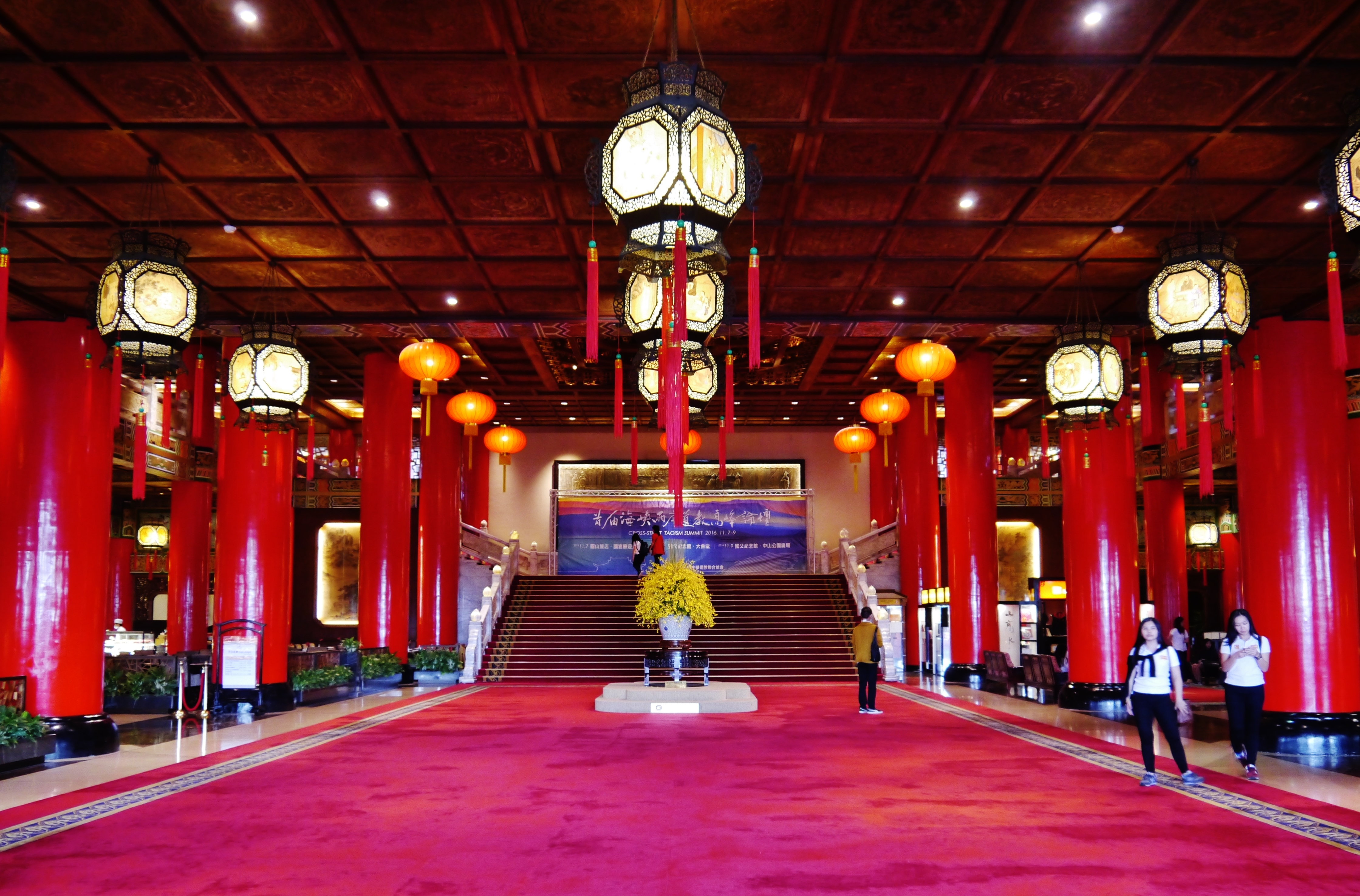 Lobby of the Taipei Grand Hotel, Taipei, Taiwan